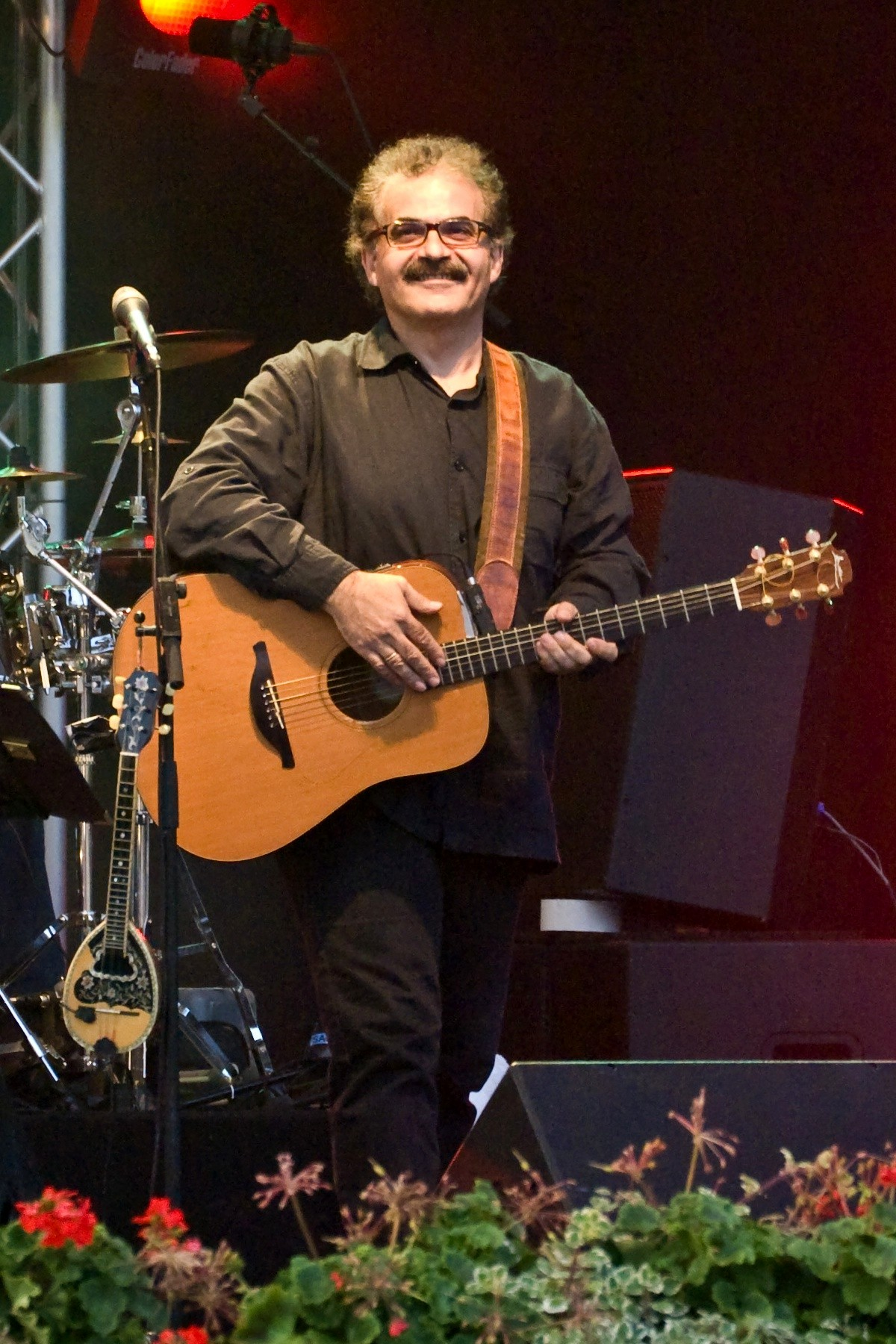 Lakis Jordanopoulos performs with his band "Lakis & Achwach" in Tulln, Austria on 18. July 2008.